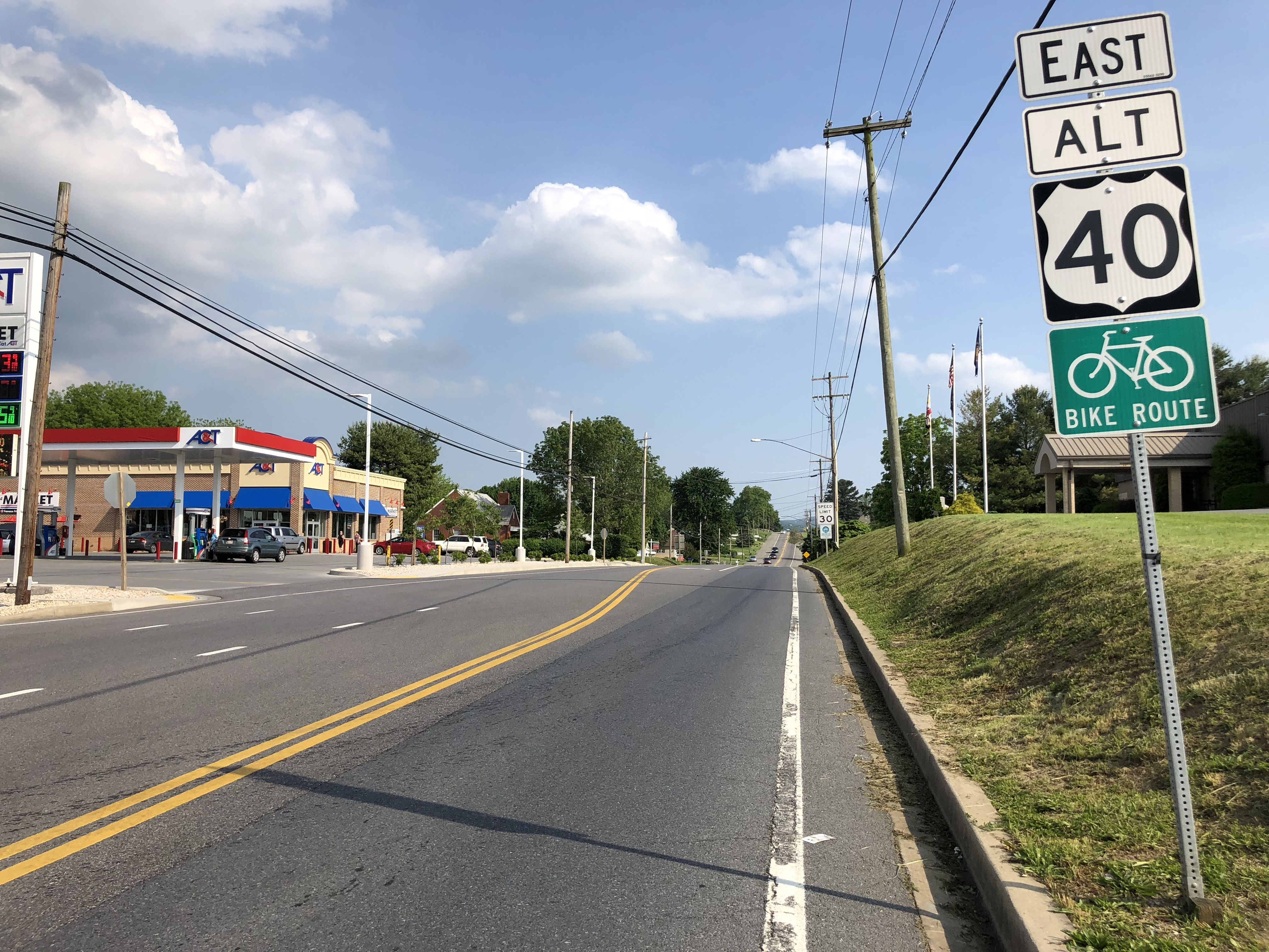 View east along U.S. Route 40 Alternate (Main Street) just east of Maryland State Route 68 (Lappans Road) in Boonsboro, Washington County, Maryland